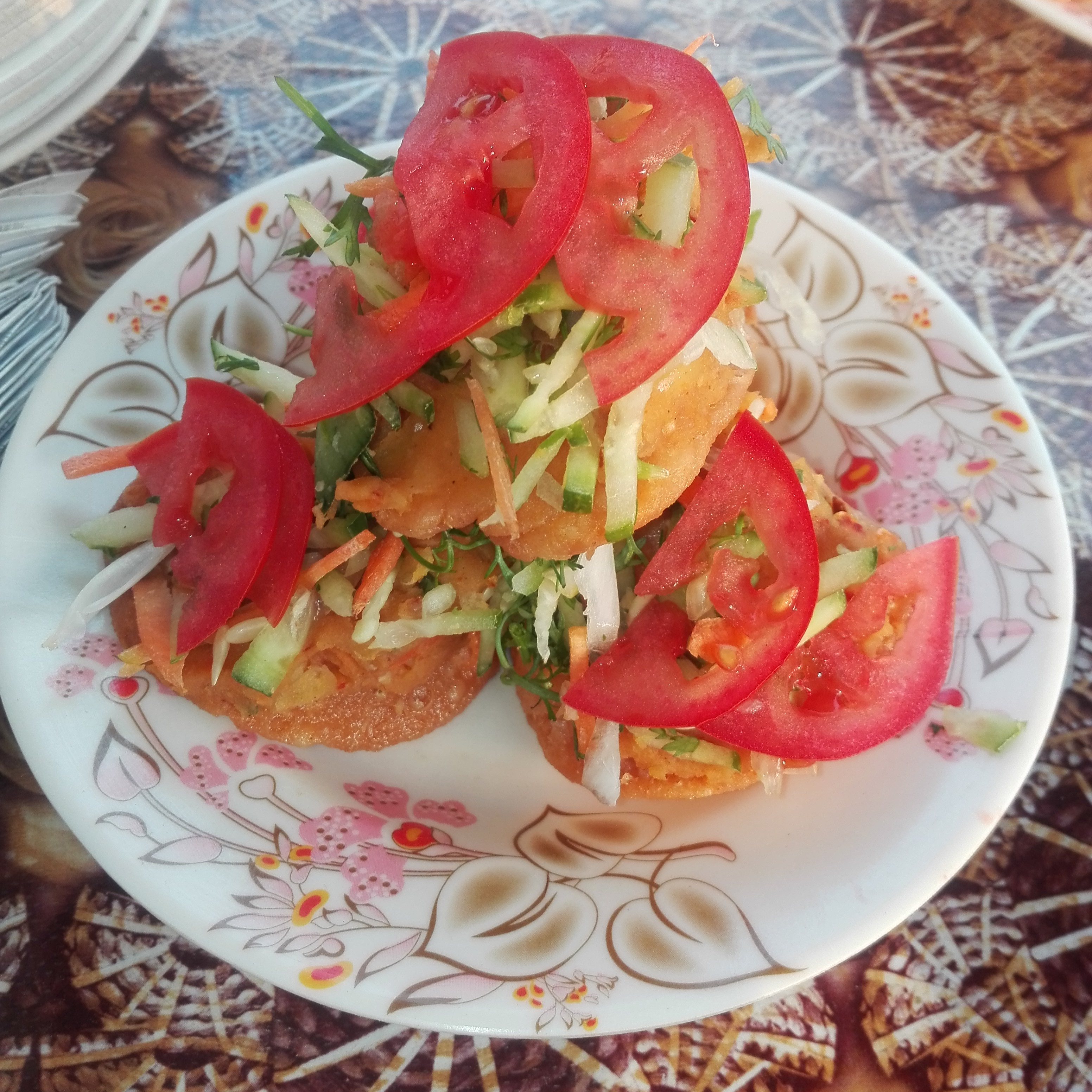 Dhakaiya Bhel Puri decorated with tomato slice on top